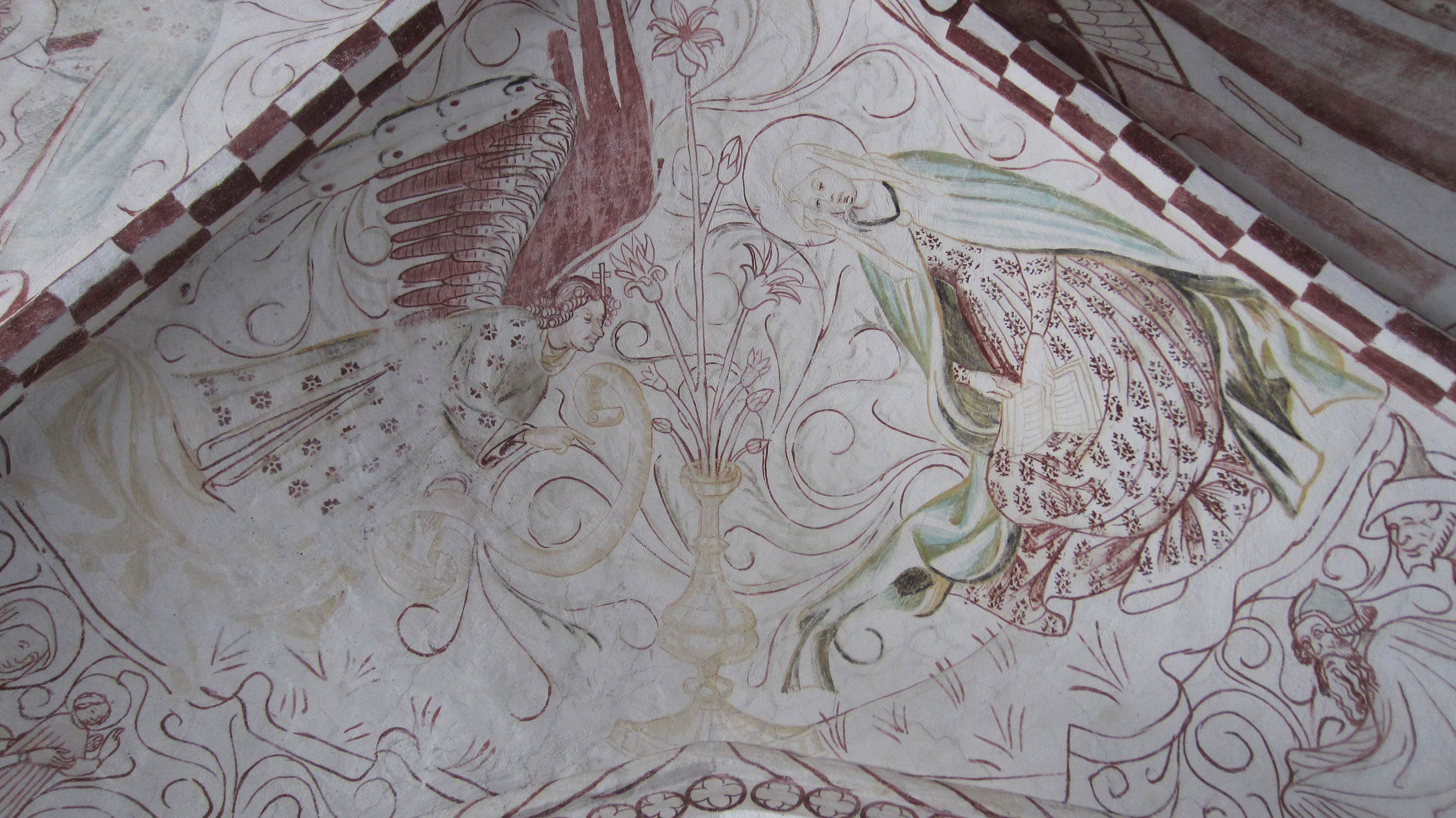 Wall paintings from about 1440 in Brönnestad church, Scania, Sweden.